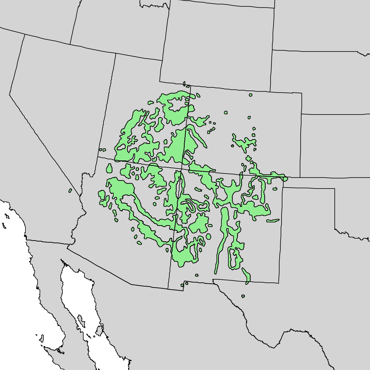 Natural distribution map for Pinus edulis